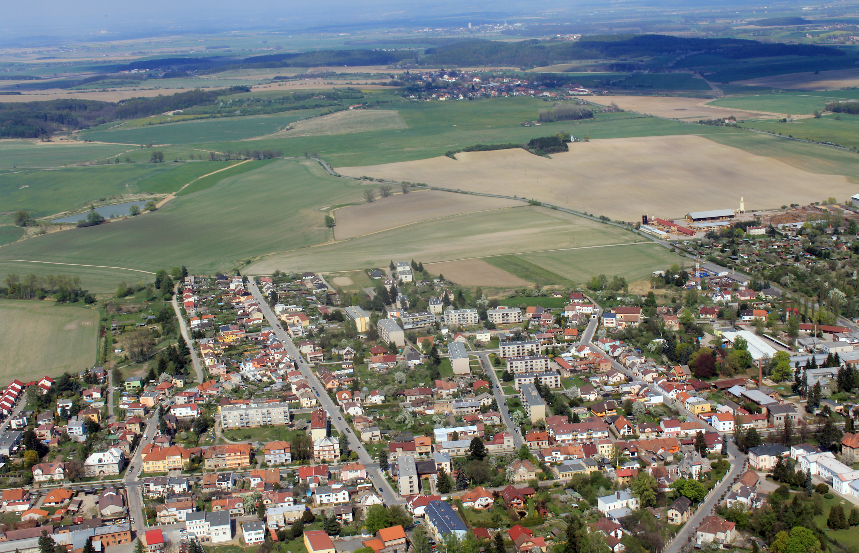 Town Třebechovice pod Orebem and village Jeníkovice from air, eastern Bohemia, Czech Republic